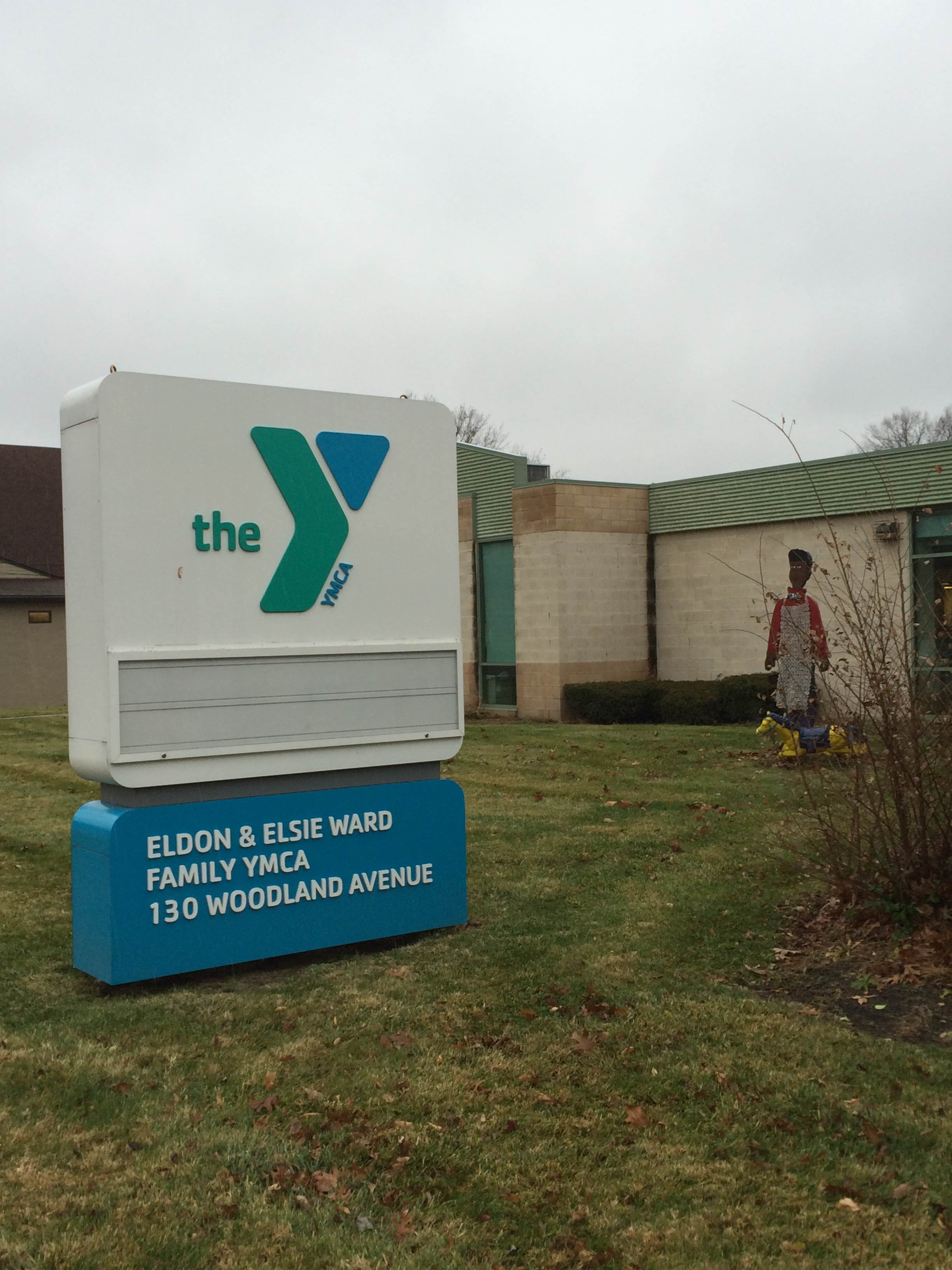 This is a picture of the YMCA located in Woodland Park, a neighborhood in Columbus, OH